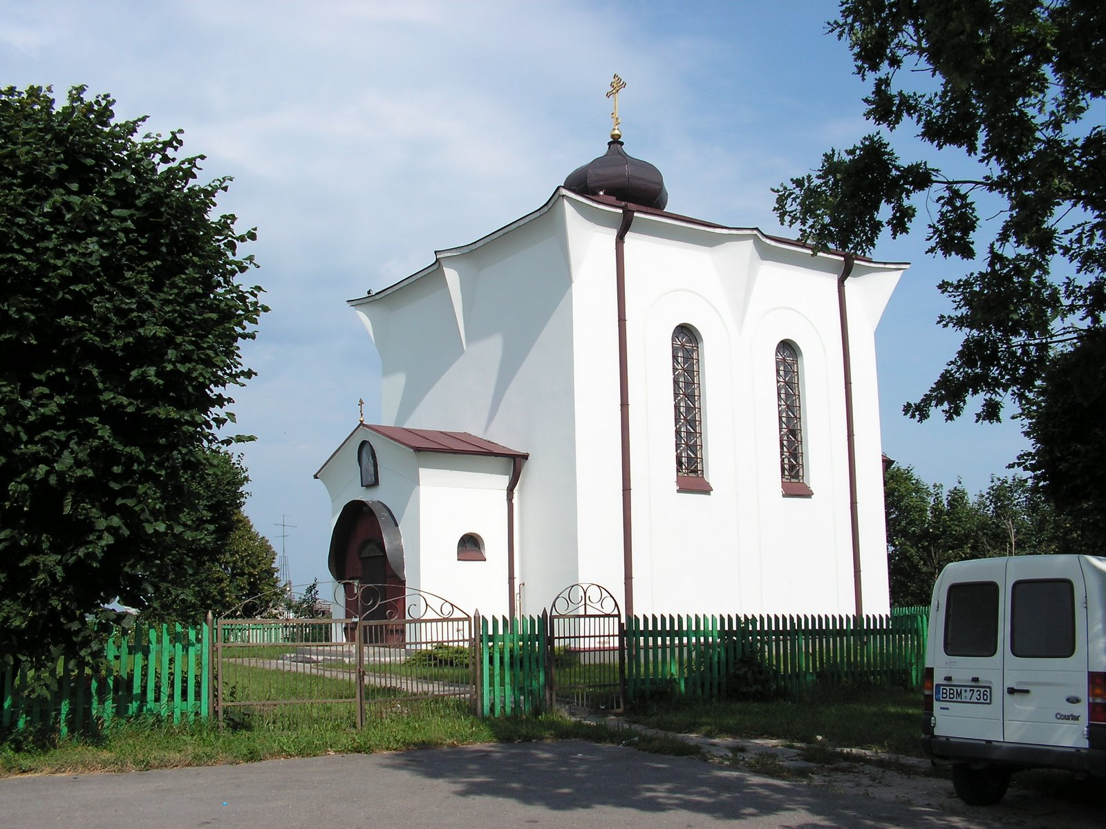 The Orthodox Church of Telsiai